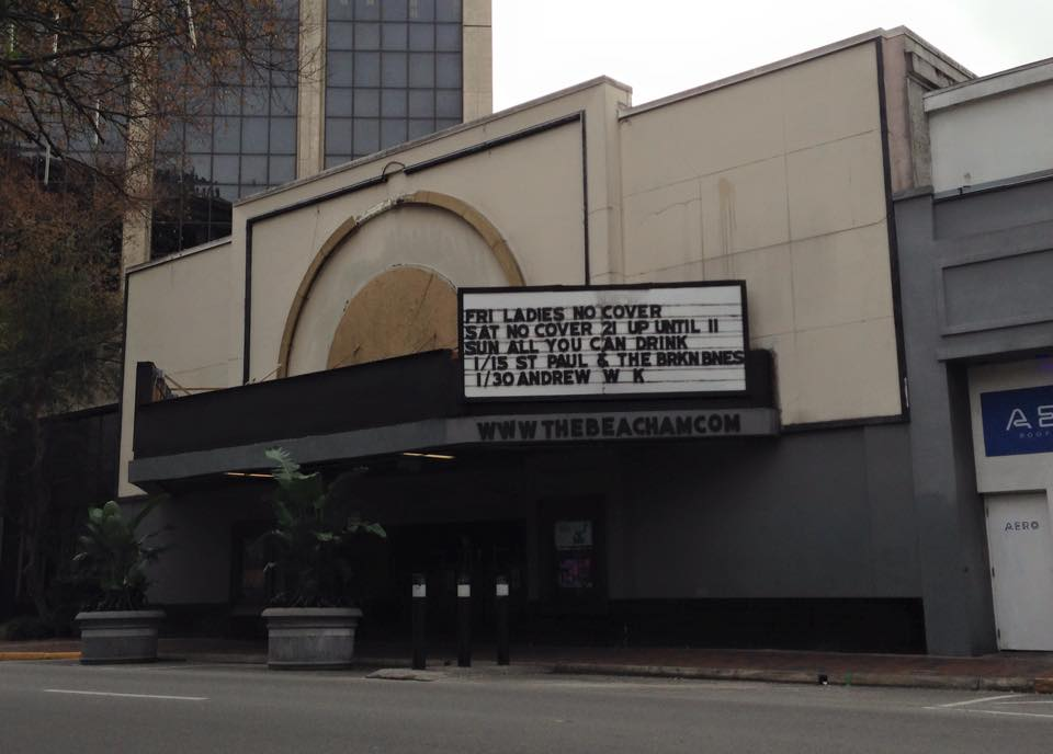 Beacham Theater facade was in poor condition on January 14, 2015. The marquee displays upcoming shows.